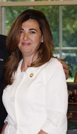 Ambassador Houda Ezra Ebrahim Nonoo of the Kingdom of Bahrain, Monday, July 28, 2008 in the Oval Office at the White House, during the credentials ceremony for newly appointed ambassadors to Washington, D.C.